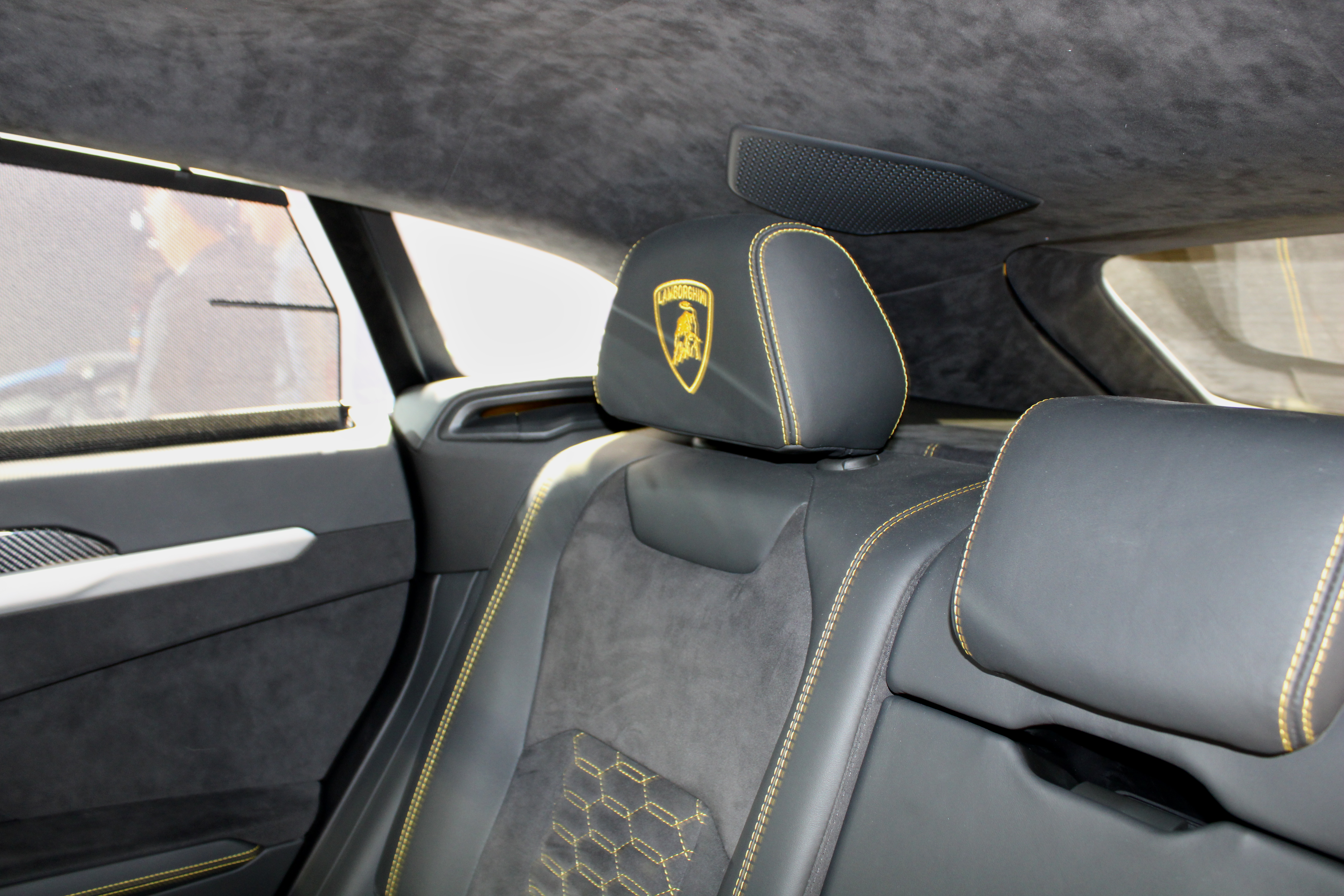 Lamborghini Urus at Paris Motor Show 2018